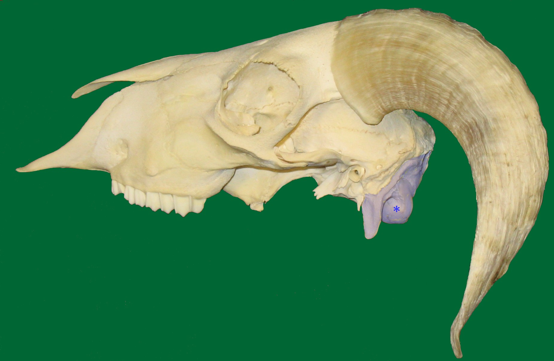 Skull of a sheep. occipital bone coloured, * Condylus occipitalis